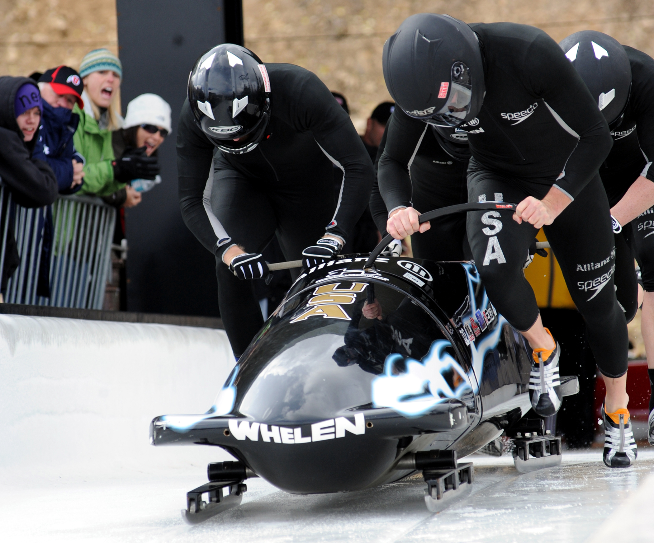 Army National Guard Outstanding Athlete Program bobsled pilot Sgt. Mike Kohn (front right) leads his four-man squad at the start of a U.S. World Cup Team Trials race at Park City, Utah. See more at Soldiers on track to make U.S. Olympic bobsled team